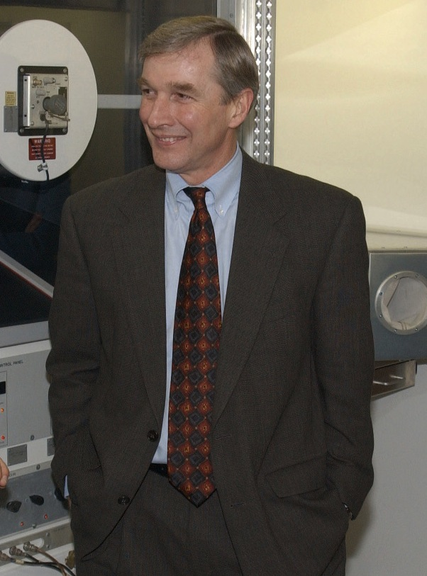 Mich. Lt. Gov. Posthumus (center) is briefed on our "Starbase" youth educational program by Ret. Navy Capt. Lyman (2nd from left), Brig. Gen. Tom Cutler (left) and Maj. Gen. G. Stump inside of a replica of the "Destiny" lab module, while visiting Mich. Air National Guard troops, Jan. 10, 2002. (U.S Air Force photo by John S. Swanson) (Released)